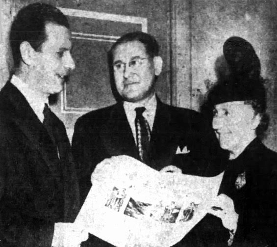 Dr. Harris J. Levine and Ida Silverman present a scroll to Israel Deputy Defense Minister Joseph Jacobson (left). The presentation was made to honor Jacobsen's service to Israel.